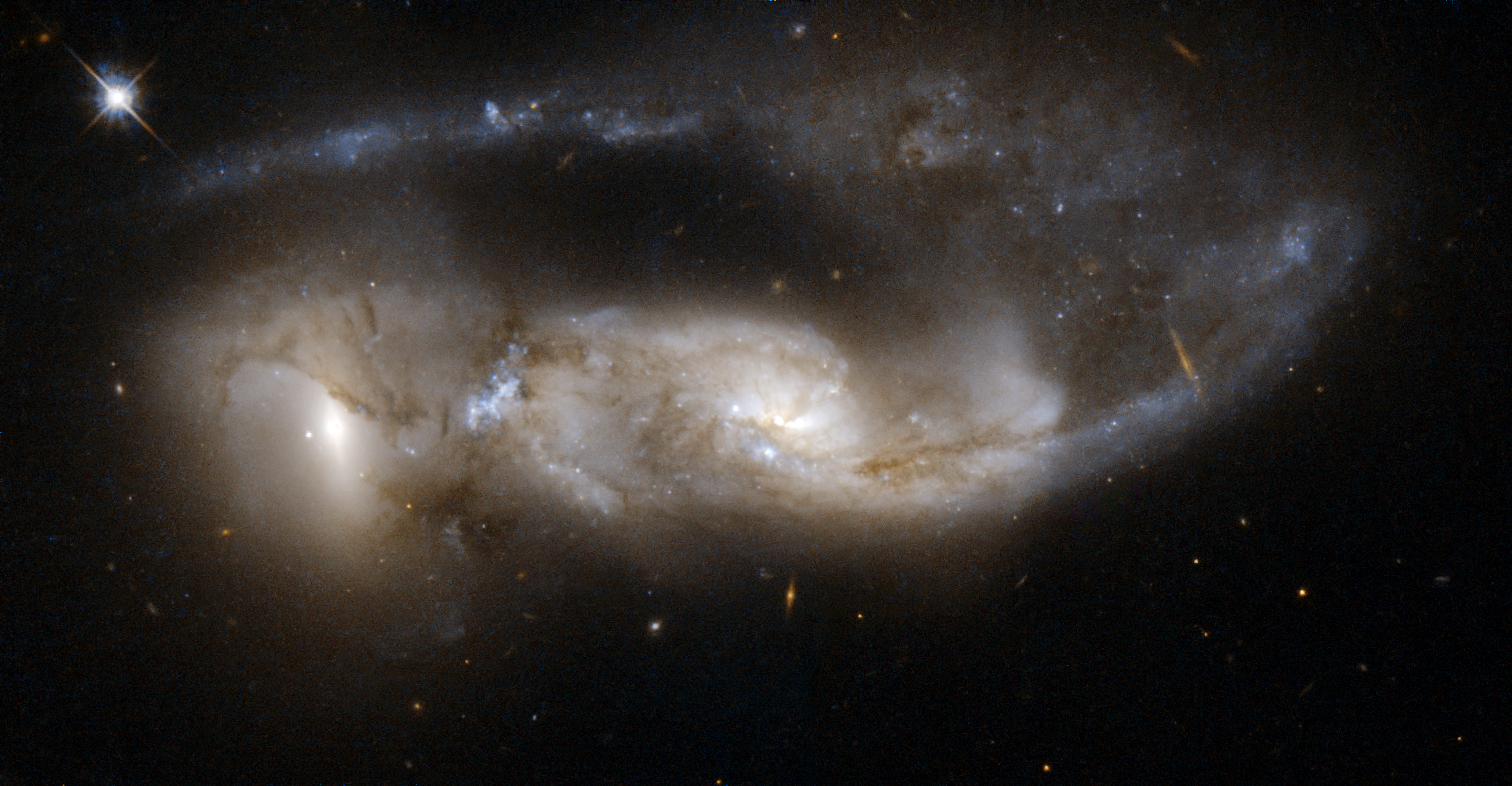 NGC 6621/2 (VV 247, Arp 81) is a strongly interacting pair of galaxies, seen about 100 million years after their closest approach. It consists of NGC 6621 (to the right) and NGC 6622 (to the left). NGC 6621 is the larger of the two, and is a very disturbed spiral galaxy. The encounter has pulled a long tail out of NGC 6621 that has now wrapped behind its body. The collision has also triggered extensive star formation between the two galaxies. Scientists believe that Arp 81 has a richer collection of young massive star clusters than the notable Antennae galaxies (which are much closer than Arp 81). The pair is located in the constellation of Draco, approximately 300 million light-years away from Earth. Arp 81 is the 81st galaxy in Arp's Atlas of Peculiar Galaxies. This image is part of a large collection of 59 images of merging galaxies taken by the Hubble Space Telescope and released on the occasion of its 18th anniversary on 24th April 2008. About the object Object name NGC 6621, NGC 6622, VV 247, Arp 81, VII Zw 778, KPG 534A Object description Interacting Galaxies Position (J2000) 18 12 54.70+68 21 49.0 Constellation Draco Distance 300 million light-years (100 million parsecs) About the data Data description The Hubble image was created using HST data from proposal 7467: W. Keel (University of Alabama, Tuscaloosa) Instrument WFPC2 Exposure date(s) March 15, 1999 Exposure time 1.4 hours Filters F435W (B) and F814W (I)